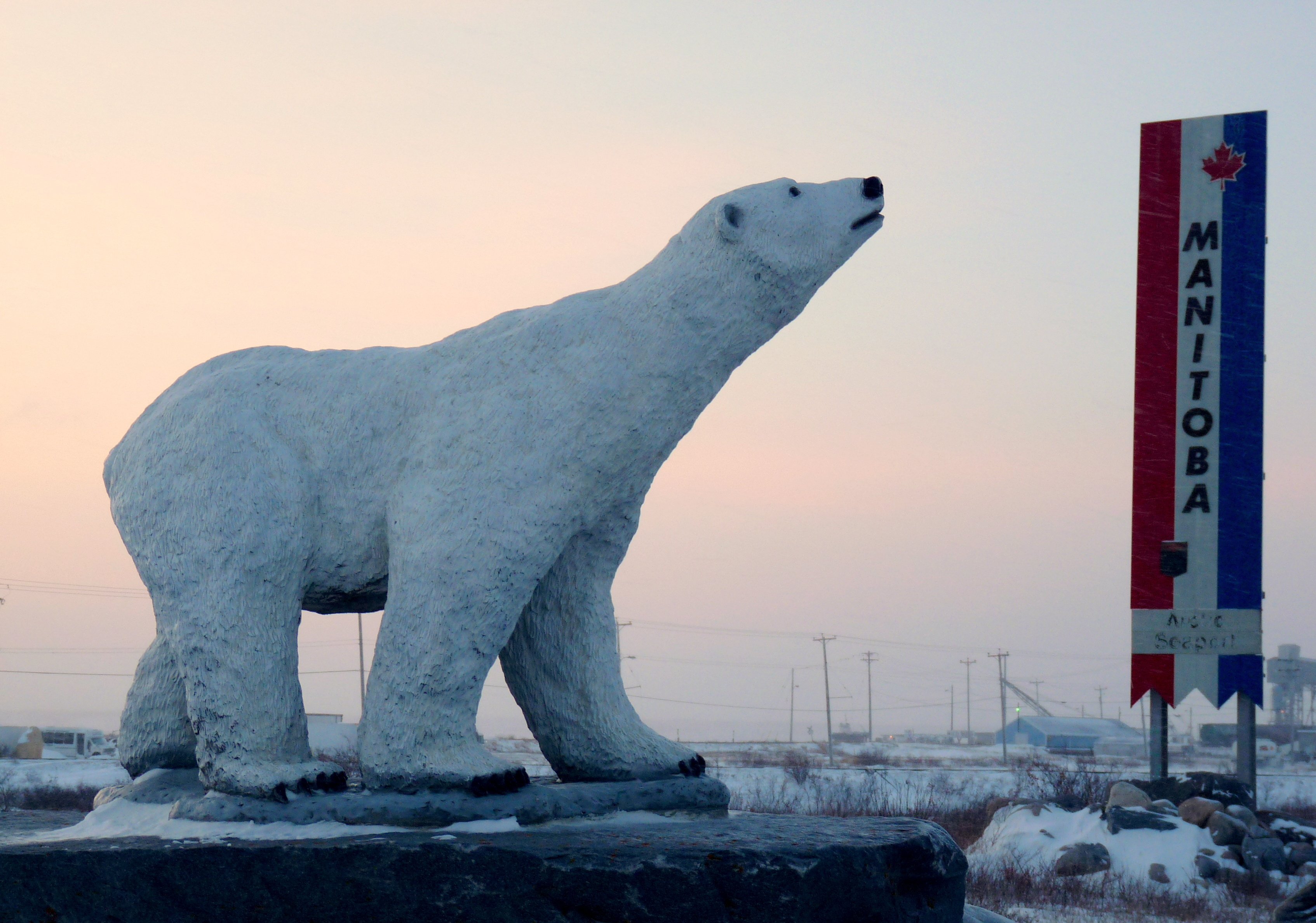 Polar bear statue, Churchill, Manitoba